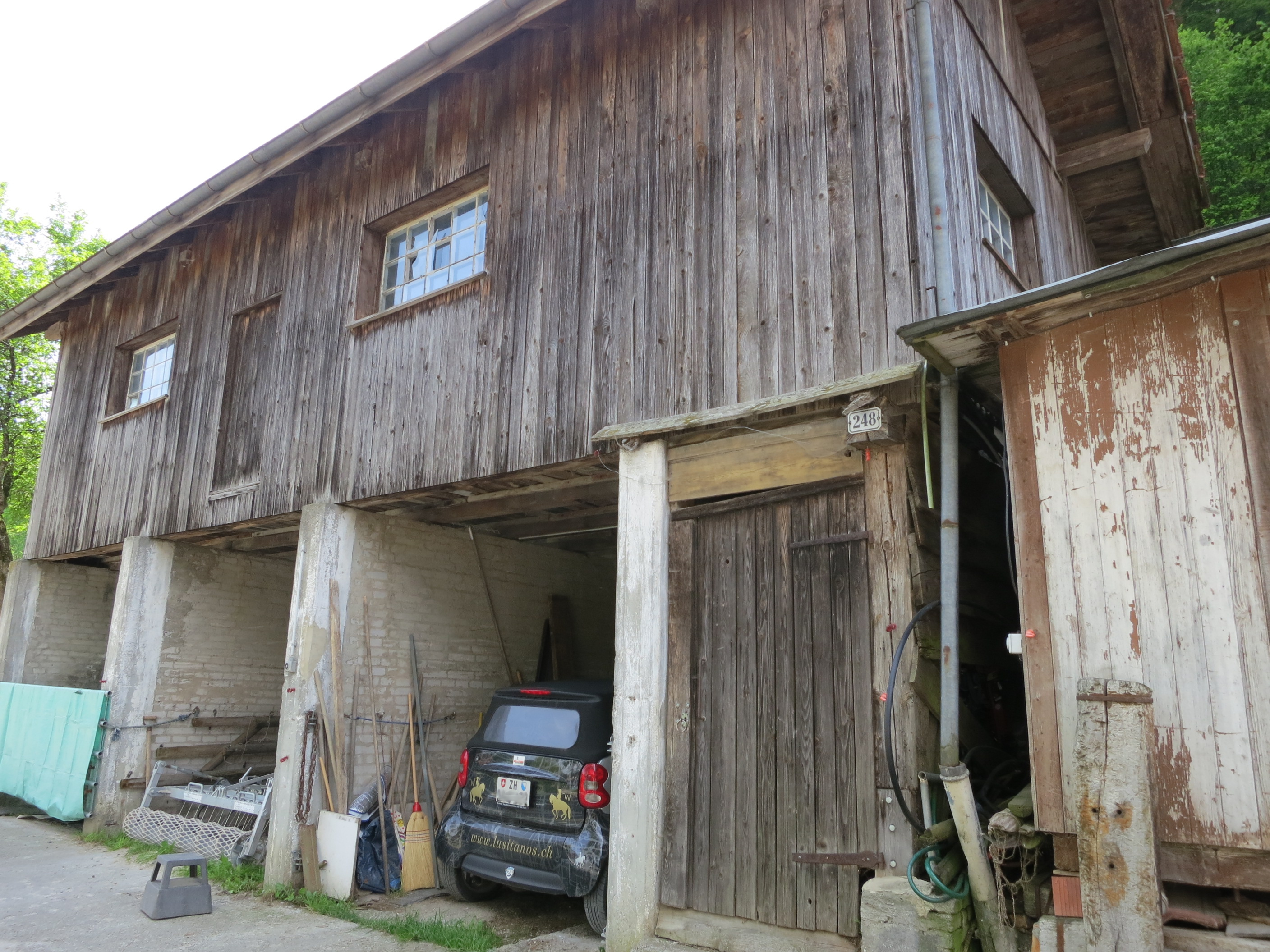 Klauberei, Bergwerk Riedhof, Aeugst am Albis ZH, Schweiz